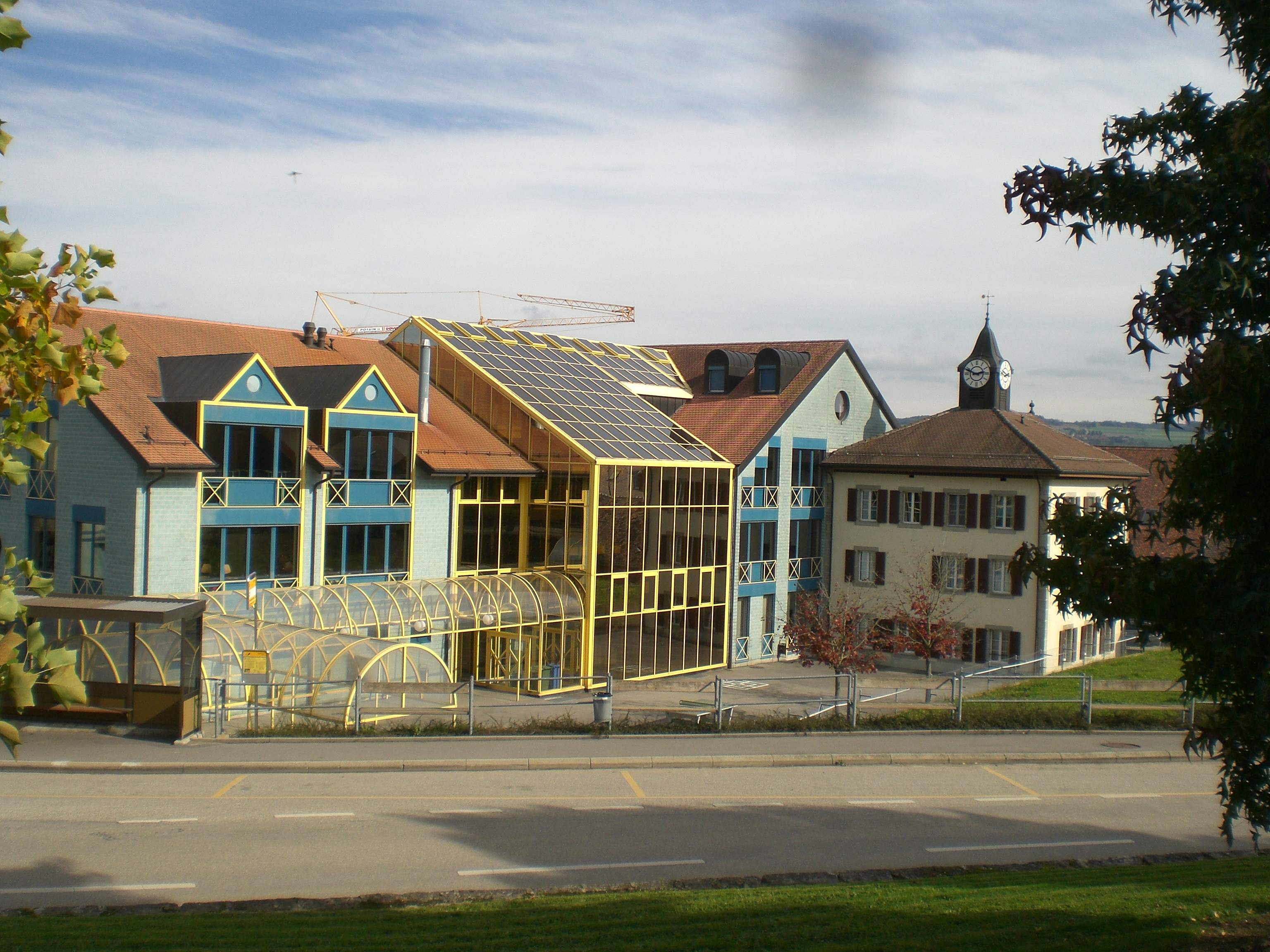 School building of Pailly, canton of Vaud, Switzerland